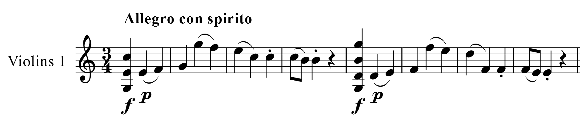 Joseph Haydn, Symphony No. 41, first movement, bar 1-8